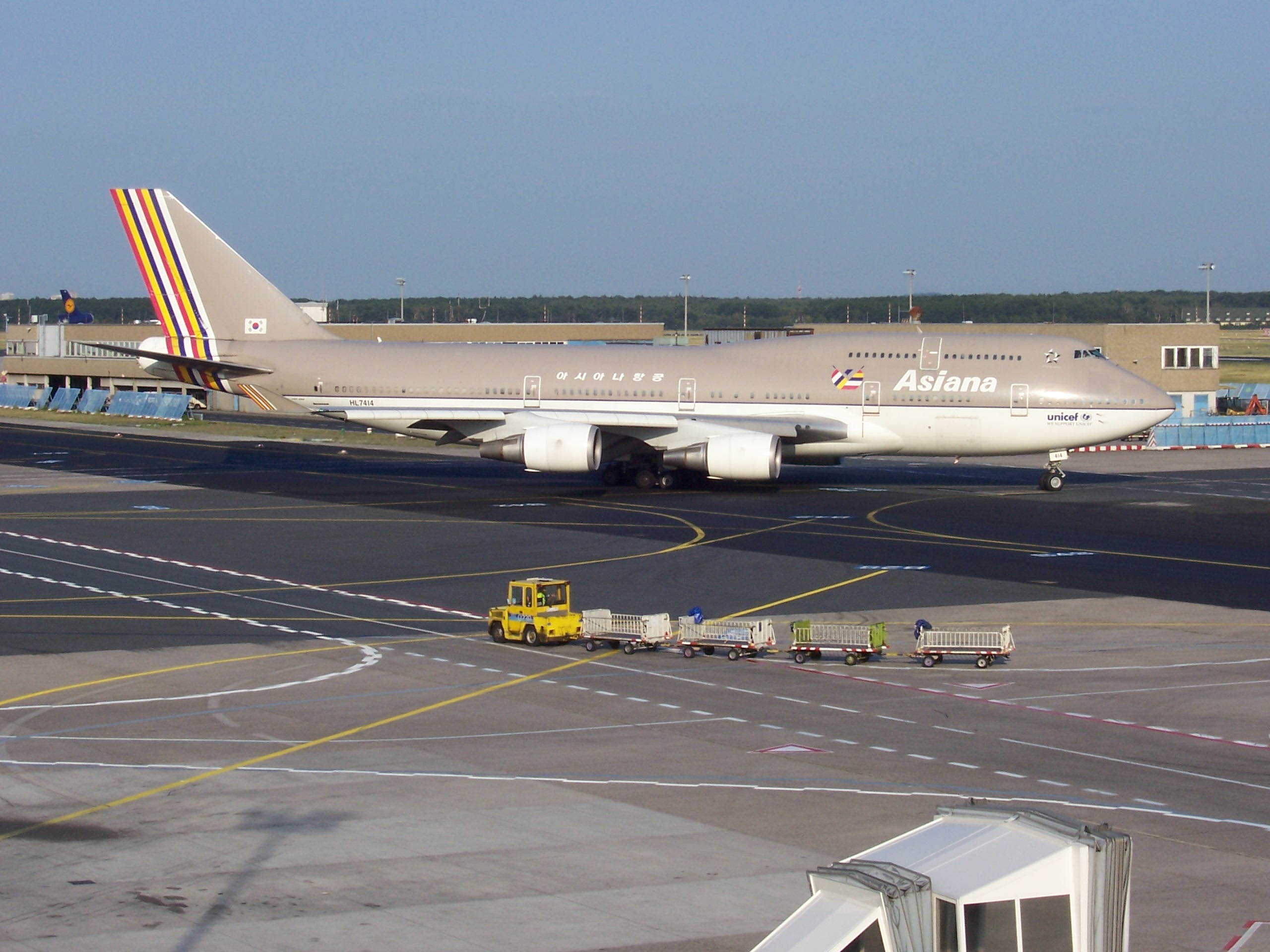 Boeing 747-48E of Asiana Airlines, Registration code HL7414, in Frankfurt am Main, Germany. My own photo from 27-jul-2005